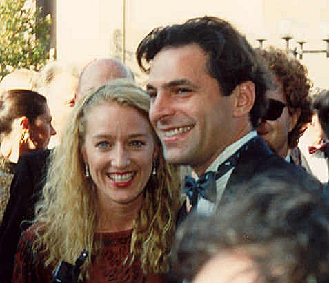 Patricia Wettig and Ken Olin on the red carpet at the 41st Annual Emmy Awards, 9/17/89 - Permission granted to copy, publish, broadcast or post but please credit "photo by Alan Light" if you can